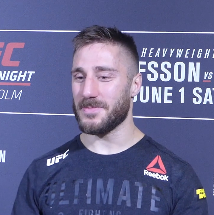 Daniel Teymur picked up his first UFC-win after defeating Sung Bin Jo via decision at UFC Stockholm. Teymur spoke with the MMA media afterwards, opening up about his tough journey in the octagon.